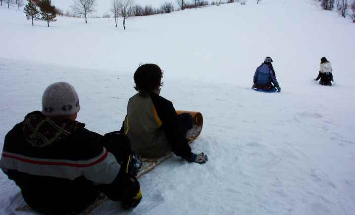 Photo I took of family recreational toboganning